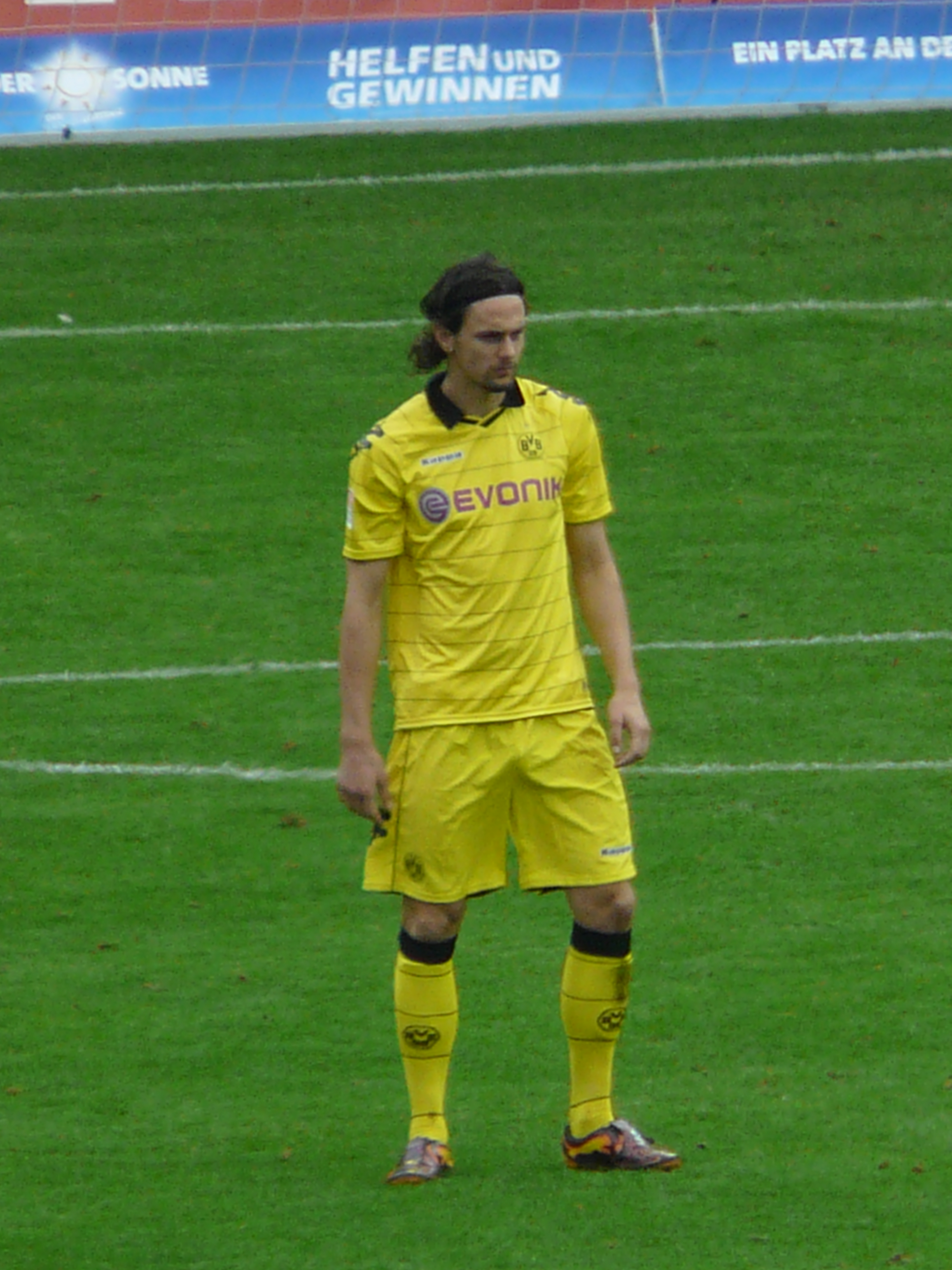 Neven Subotic in Dress from Borussia Dortmund